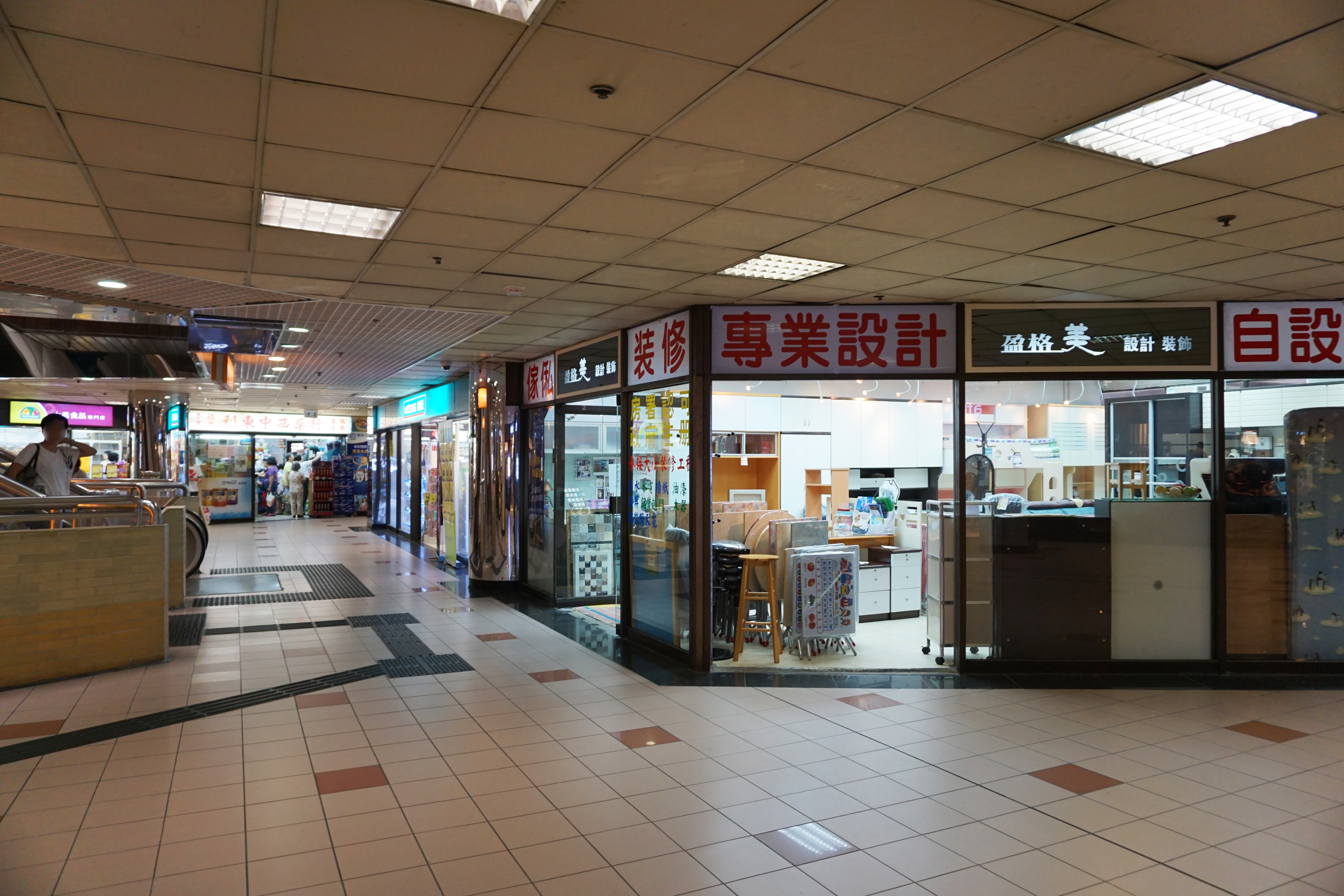 Lei Tung Commercial Centre in Ap Lei Chau, Hong Kong.